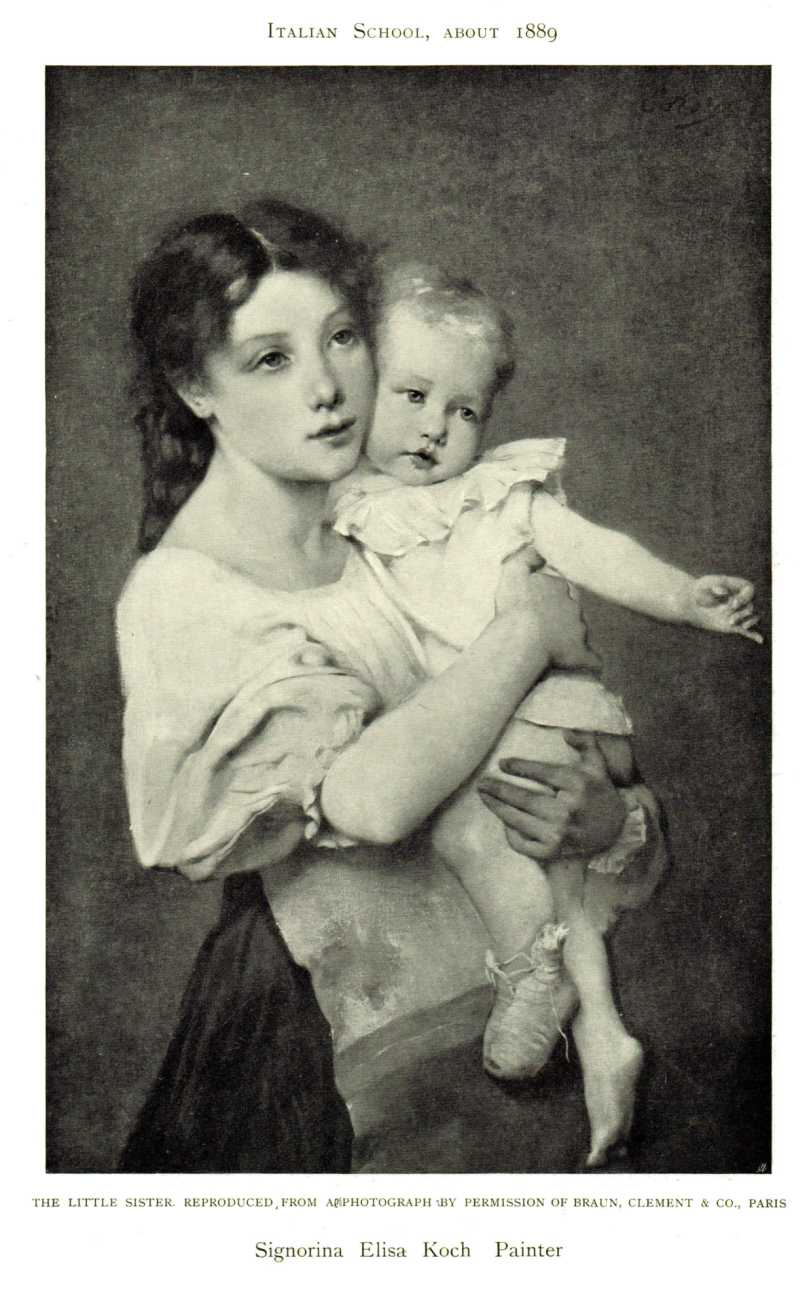 1905 print after page of Women painters of the world, from the time of Caterina Vigri, 1413-1463, to Rosa Bonheur and the present day, by Walter Shaw Sparrow, The Art and Life Library, Hodder & Stoughton, 27 Paternoster Row, London